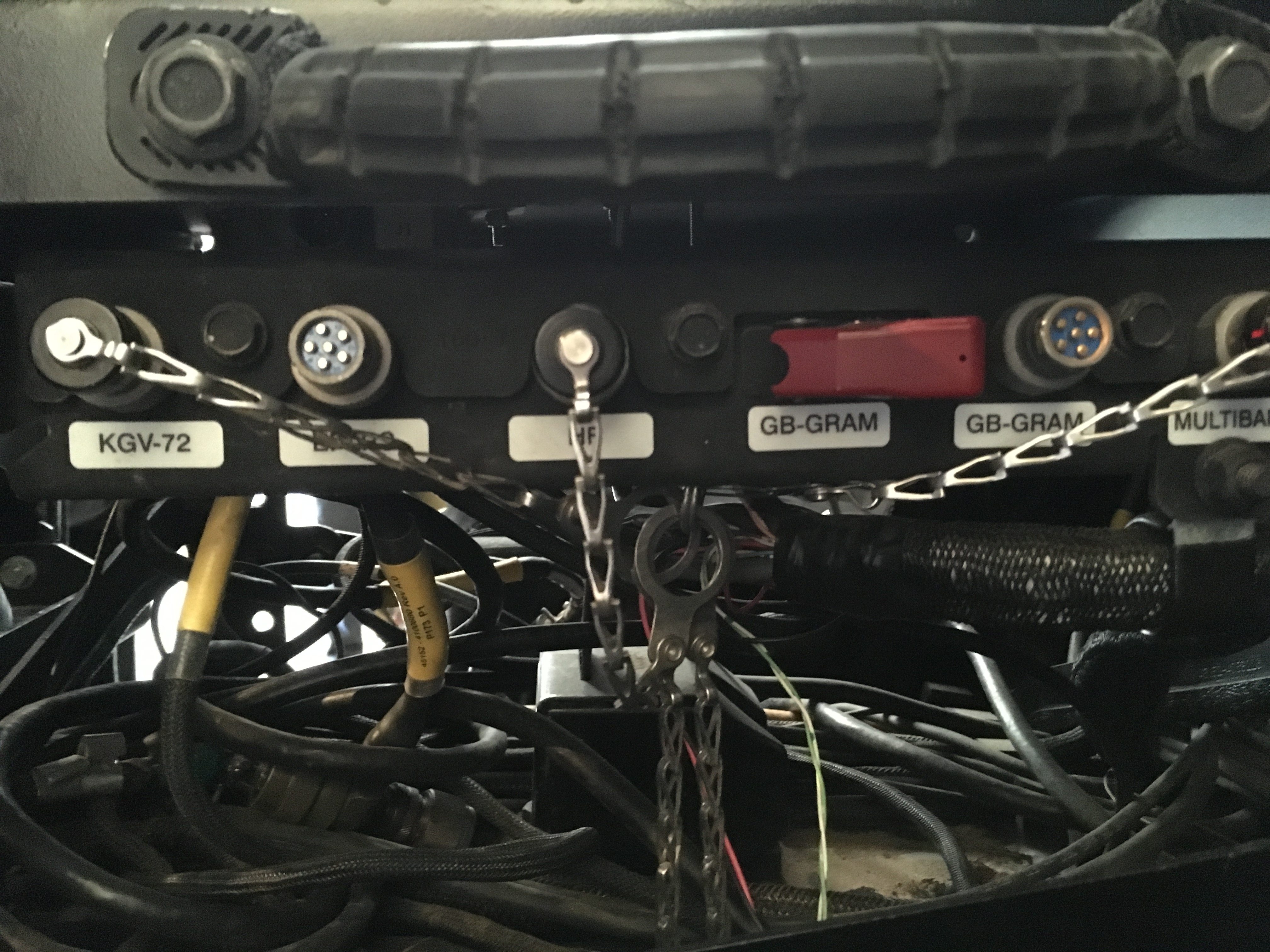 Connectors of VICTORY on board JLTV